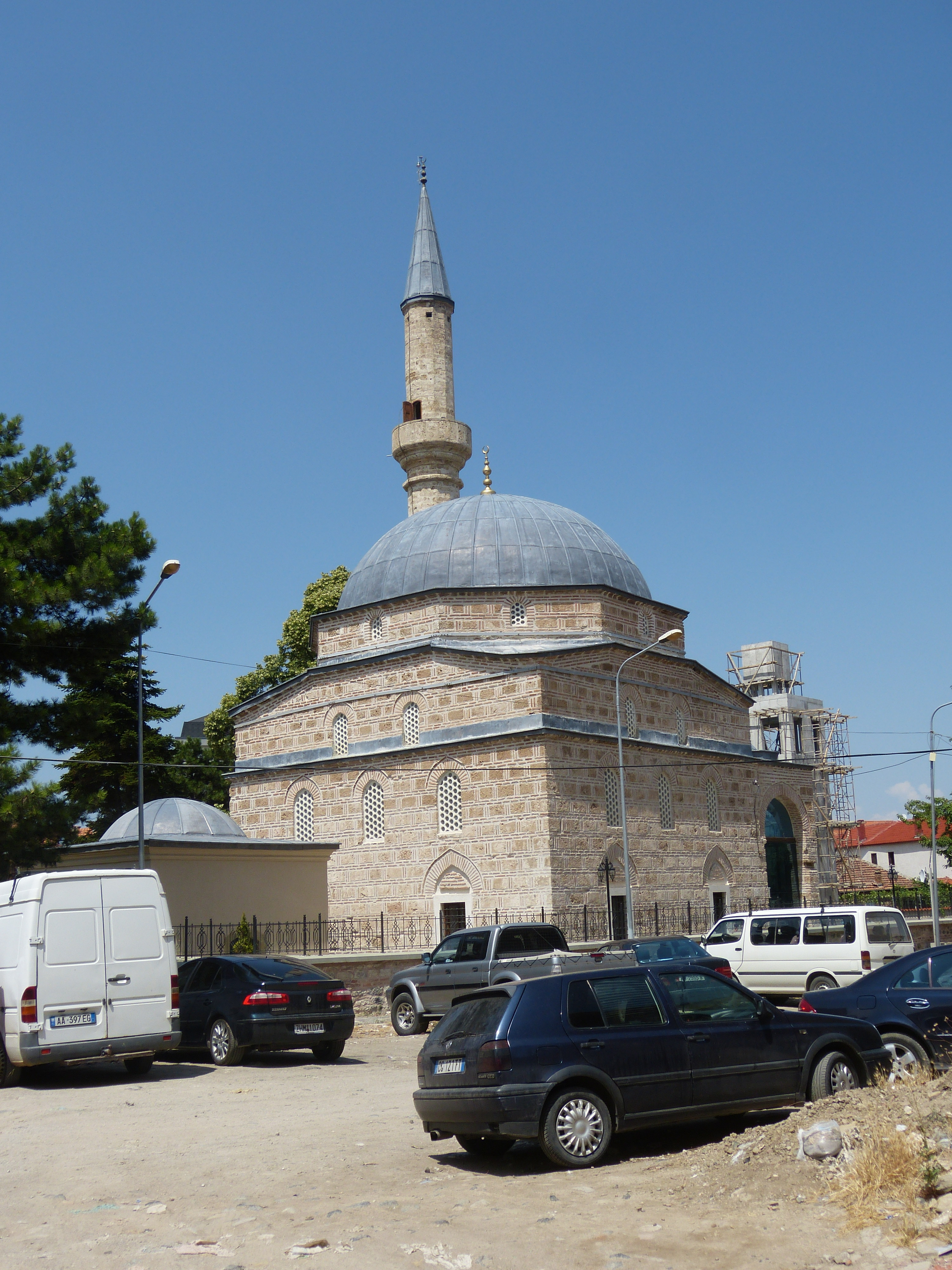 Korçë ( Albania ). Mirahor mosque ( 1496 )